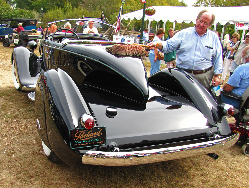 Bob Sigmon, founder of America's Packard Museum, showed me how he uses a California Duster on the rare Packard. It's the only one of its kind with a V-12 engine. Fernandez and Darrin produced the custom vehicle in Paris. The boattail is on display at the museum. I took this photo at the 2010 Dayton Concours d' Elegance.